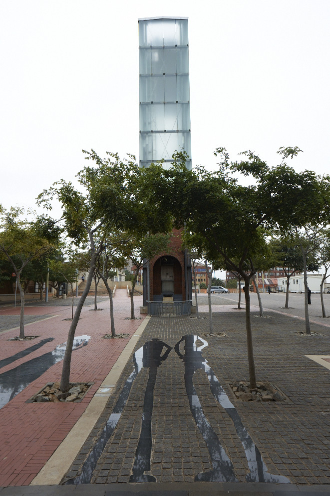 This media shows a South African Protected Site with SAHRA file reference Johannesburg.